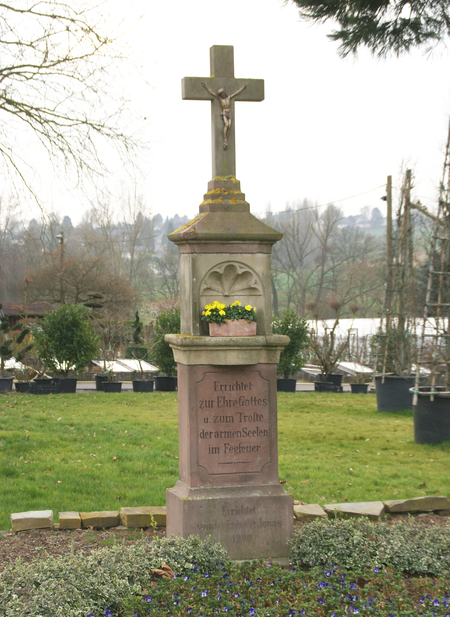 Wayside cross in Freckwinkel, Siegburger Straße 305